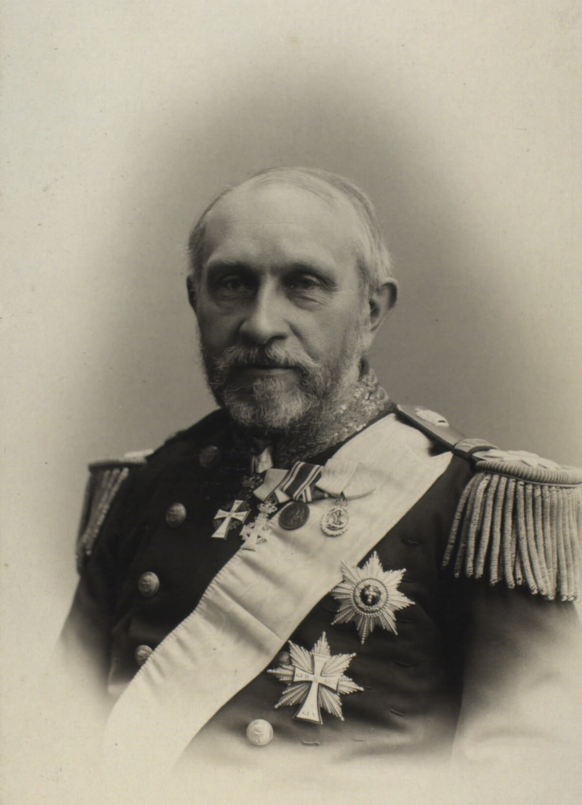 Danish Vice Admiral, Minister of War, Minister of the Royal Navy, Foreign Minister, MP, Niels Frederik Ravn (1826-1910)